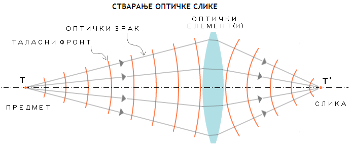 СТВАРАЊЕ ОПТИЧКЕ СЛИКЕ